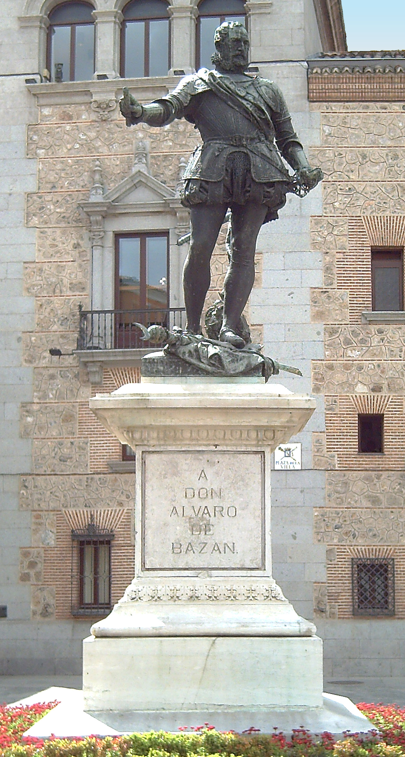 Monument to Álvaro de Bazán (1526–1588) at the Plaza de la Villa in Madrid (Spain). Inaugurated in 1891. Made of marble and bronze by sculptor Mariano Benlliure (1862–1947). Measurements: statue 2.20 metres; pedestal 1.90 metres.